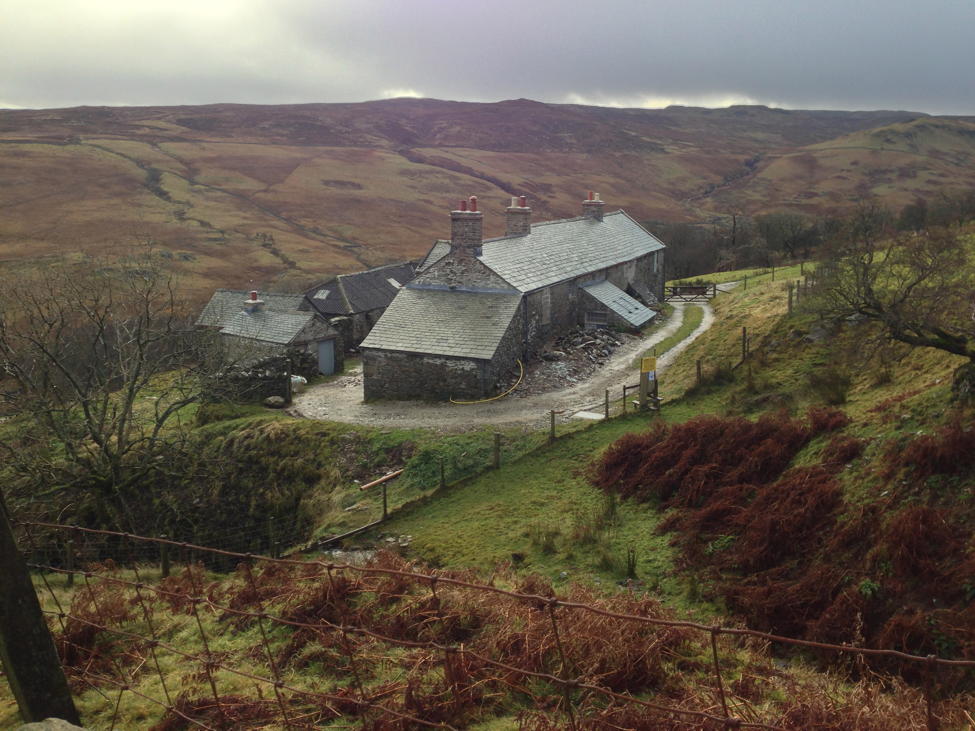 Sleddale Hall, the location used for the 1986 film Withnail and I. Photographed in 2012.